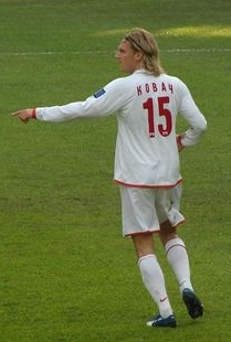 Radoslav Kováč. 2007 Russian cup semifinal (FC Lokomotiv Moscow v.s. FC Spartak Moscow)